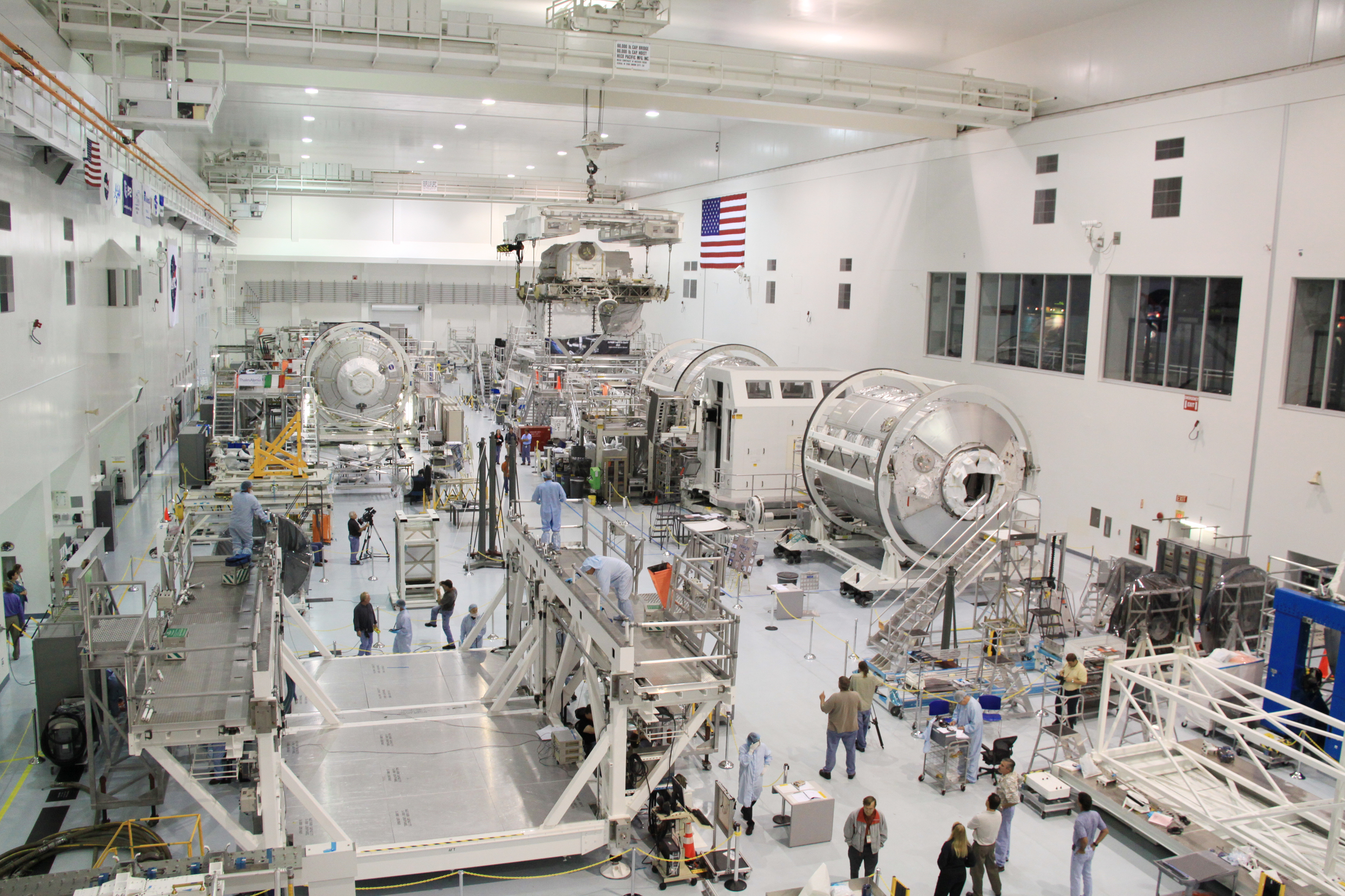 CAPE CANAVERAL, Fla. - In the Space Station Processing Facility at NASA's Kennedy Space Center in Florida, the Express Logistics Carrier-2, or ELC-2, moves across the ceiling, past the Tranquility module with the cupola attached (at left) and the Multi-Purpose Logistics Modules (at right), toward a transportation canister in which it will be secured for its trip to Launch Pad 39A. Once at the pad, it will be installed in space shuttle Atlantis' payload bay. The carrier is part of the payload for Atlantis' STS-129 mission to the International Space Station. The STS-129 crew will deliver two spare gyroscopes, two nitrogen tank assemblies, two pump modules, an ammonia tank assembly and a spare latching end effector for the station's robotic arm. Launch is targeted for Nov. 16. For information on the STS-129 mission objectives and crew, visit